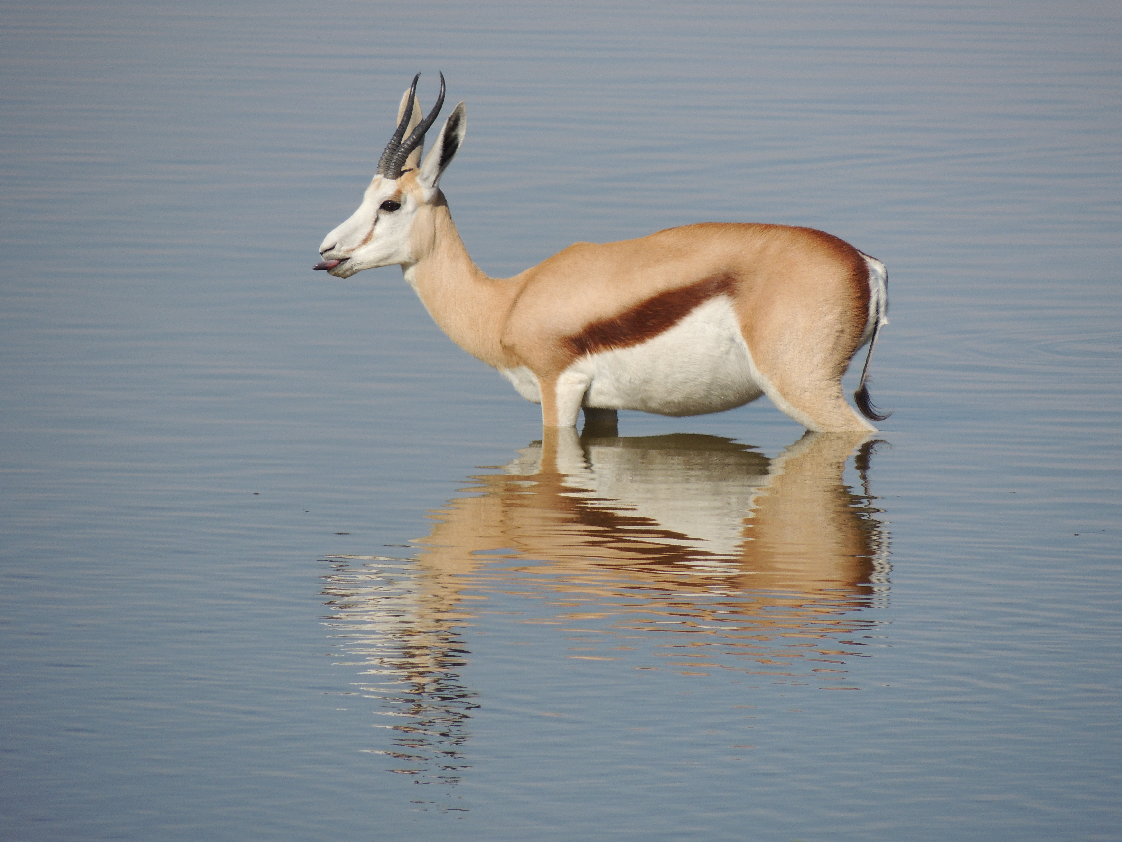 Antidorcas marsupialis - Springbok